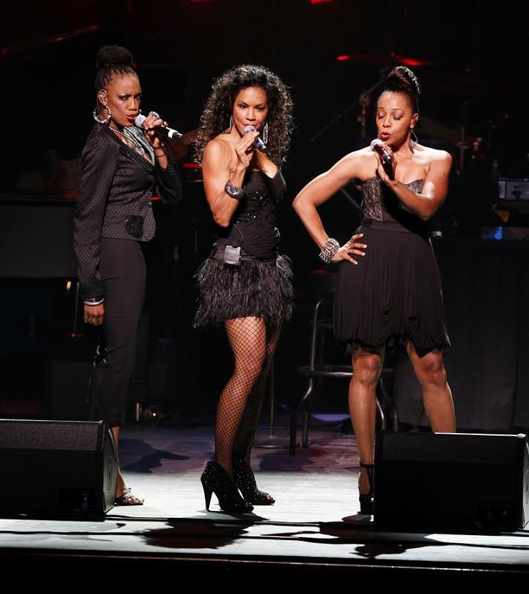 The members of En Vogue in concert